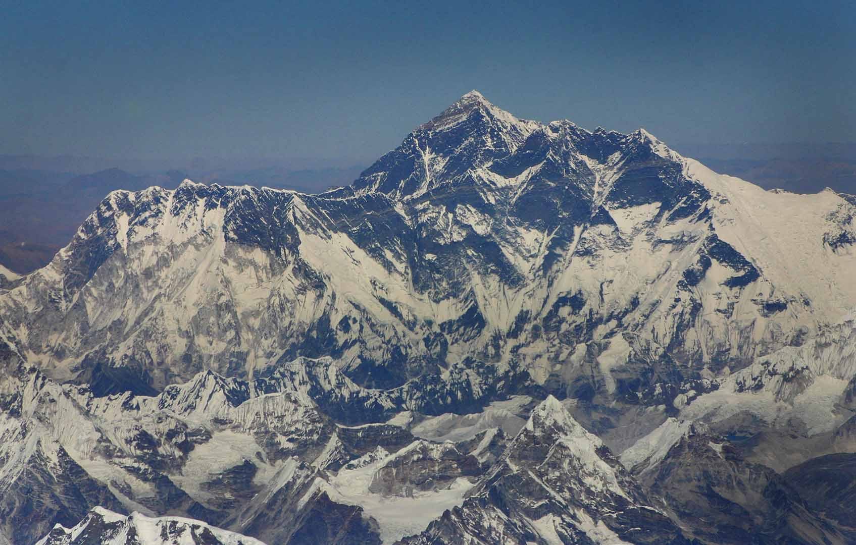 An aerial view of Mount Everest.